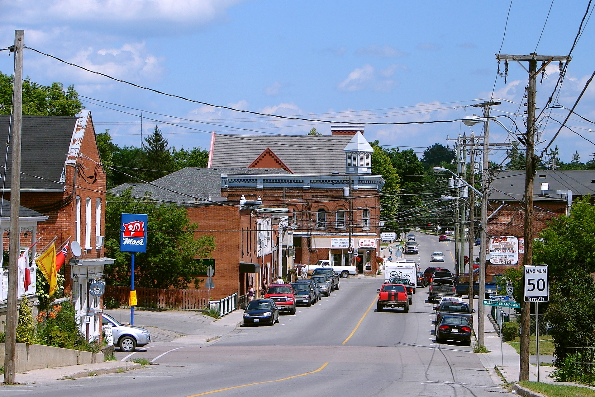 Madoc (Centre Hastings Township), Ontario, Canada. St Lawrence Street West, facing east, approaching the intersection with northbound Russell Street (at left) and southbound Champlain Street (right).